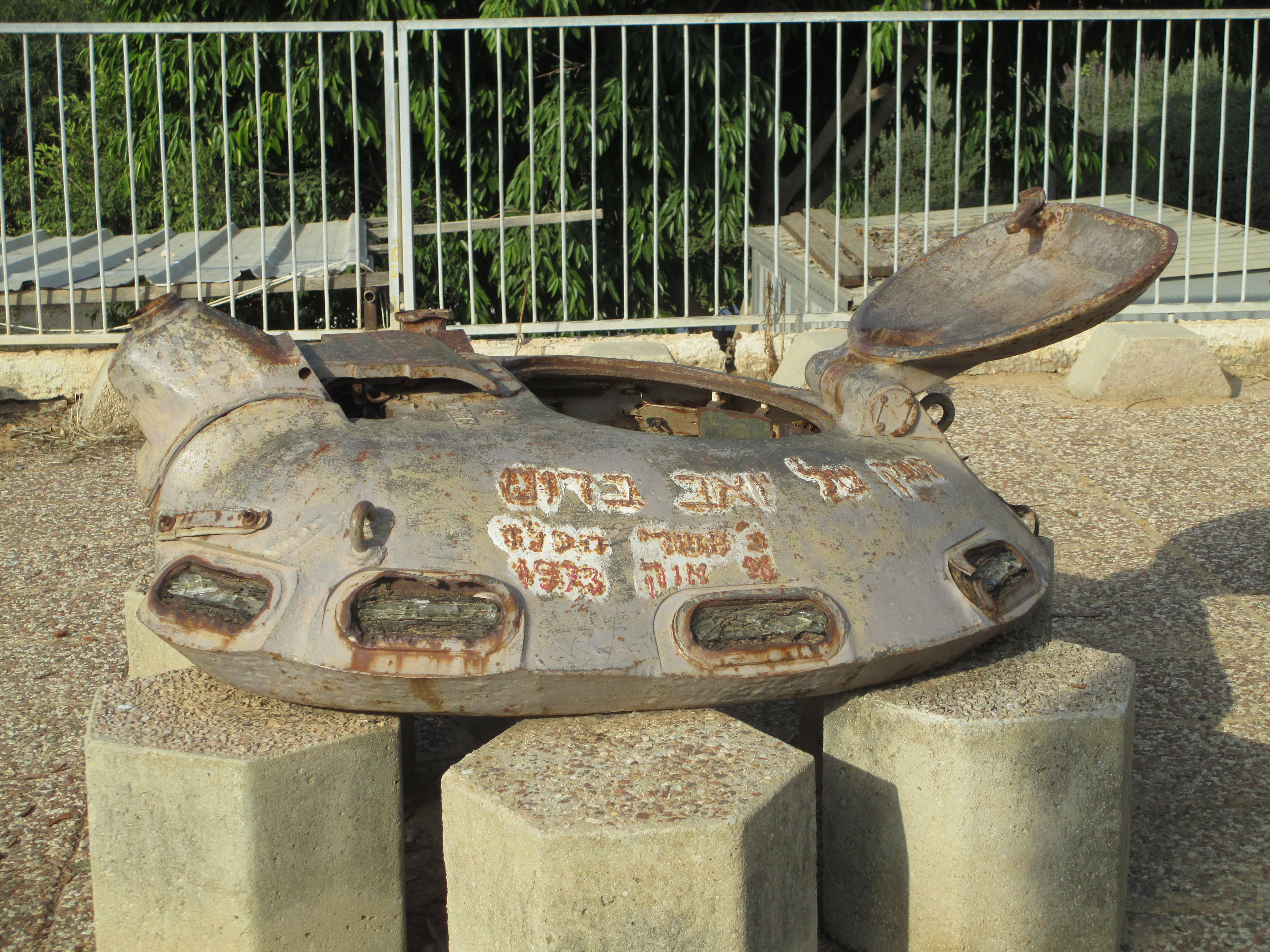 lieutenant Colonel Yoav Brom memorial in Kibbutz Shefayim